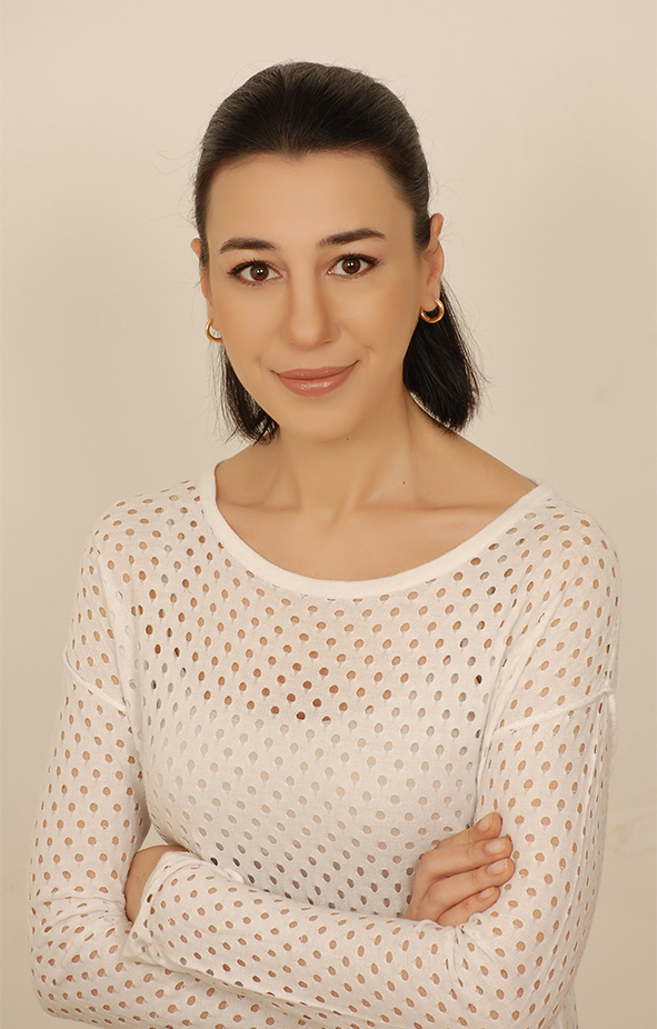 PORTRAIT